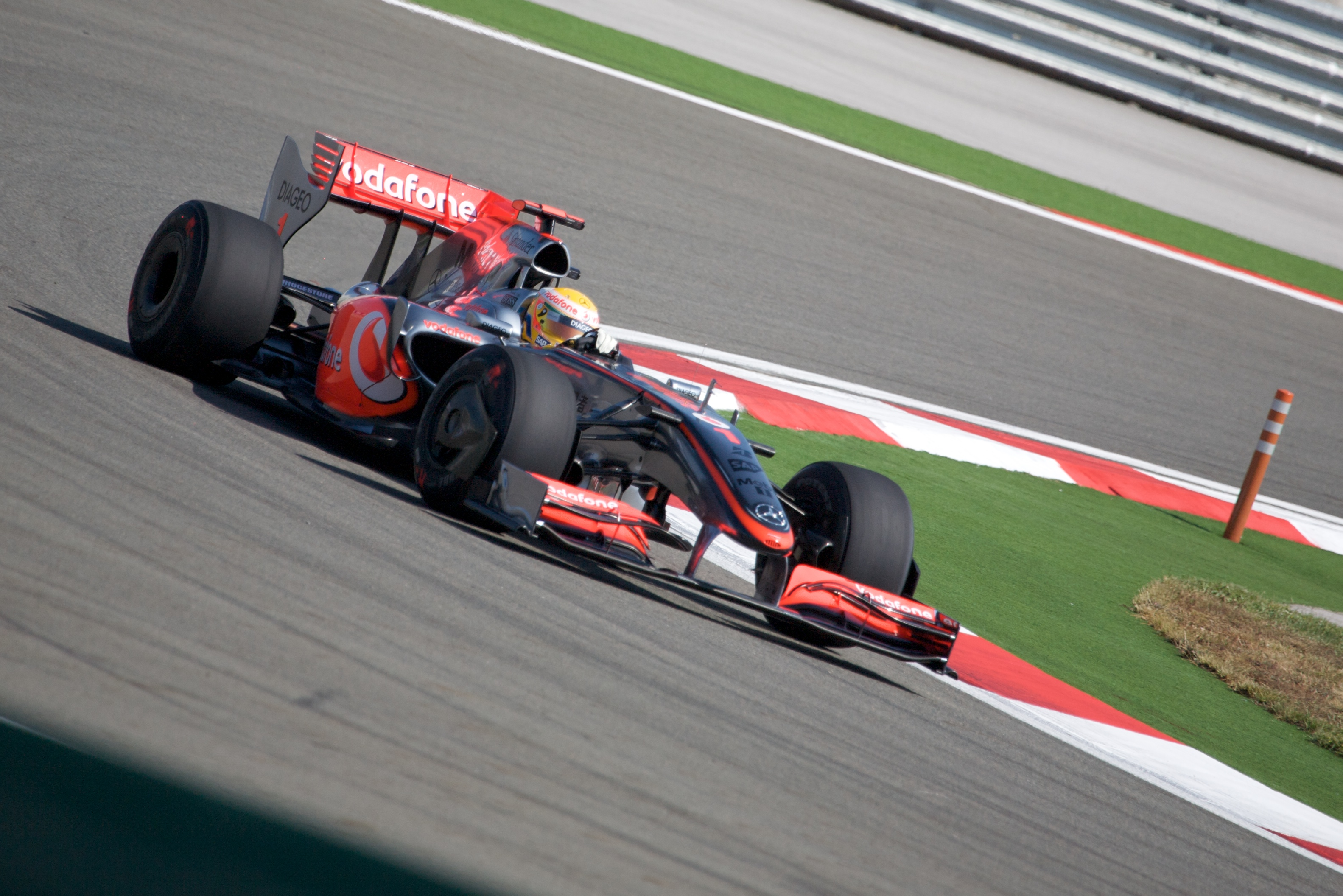 Lewis Hamilton driving for McLaren at the 2009 Turkish Grand Prix.